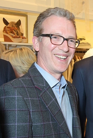 Ashley Hicks at a book launch in 2015